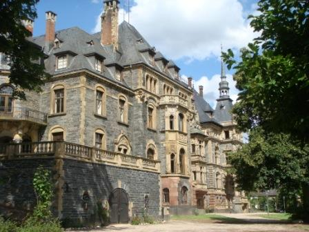 Left front of Lieser Castle